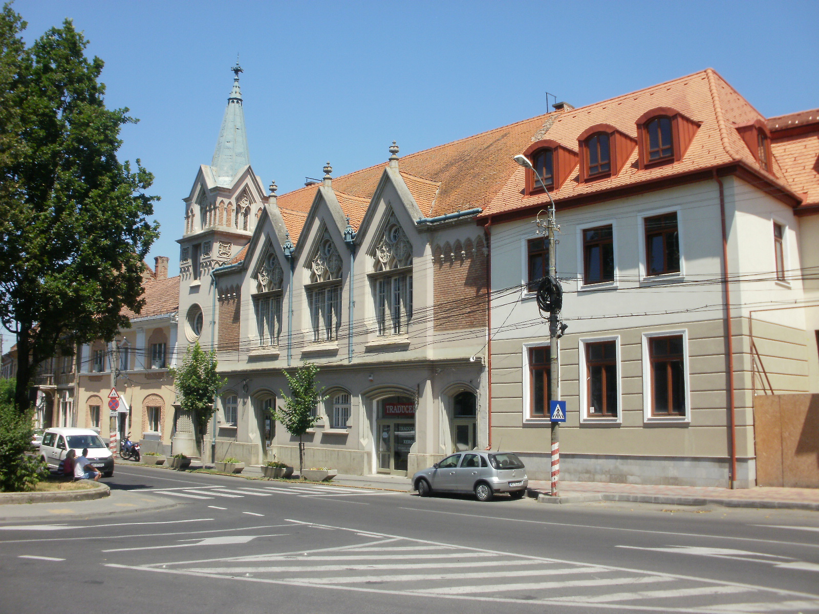 Bolyai street Unitarian church in Târgu Mureş